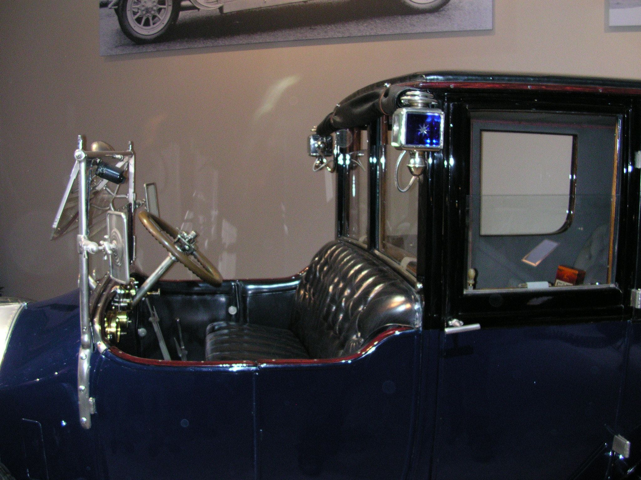 Essen Techno-Classica 2007, Rolls-Royce Silver Ghost Coupé de Ville Mulbacher (F), 1920